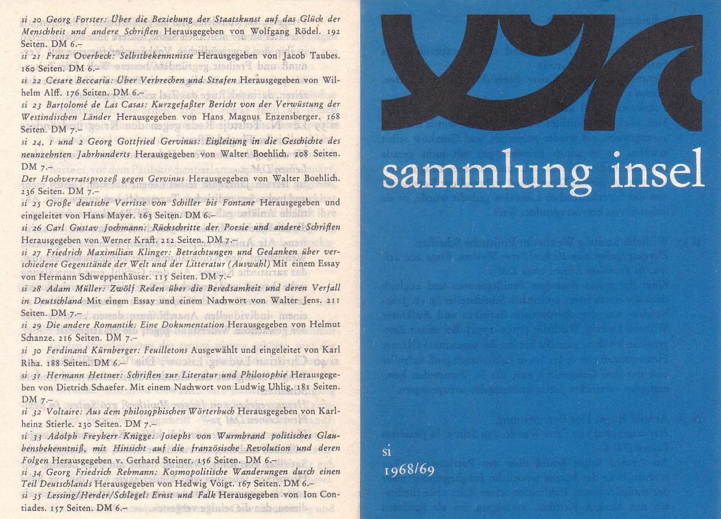 List of editions of the series "sammlung insel" 1968/1969 (Insel Verlag Frankfurt)